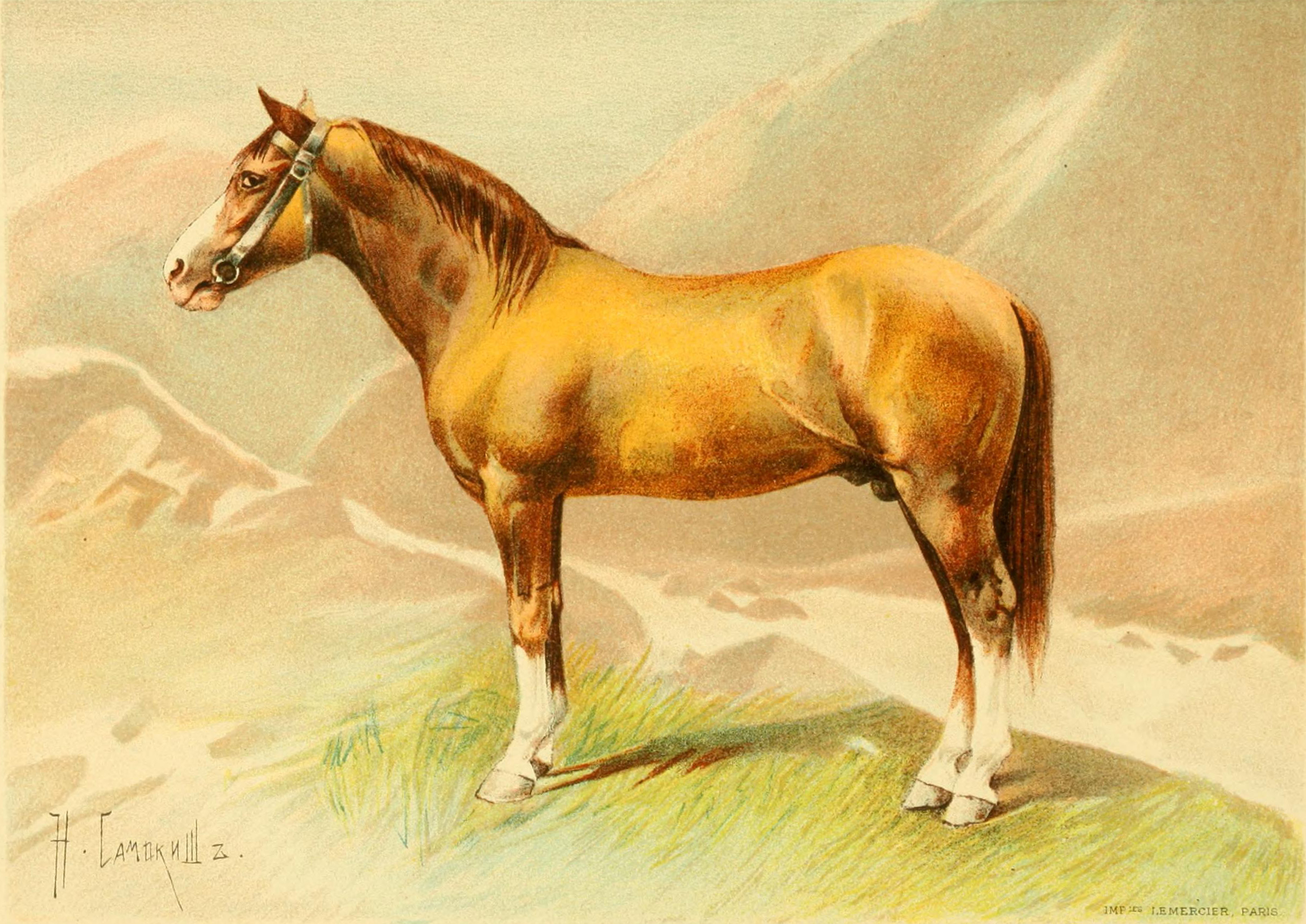 Title: Les races chevalines : avec une étude spéciale sur les chevaux russes Year: 1894 (1890s) Authors: Simonov, L. N. (Leonid Nikolaevich) Merder, Ivan Karlovich, 1832-1907 Samokysh, Mykola, 1860-1944 Bunin, N. (Narkiz Nikolaevich), 1856-1912 Rougeron, Vignerot & Cie Imprimerie Lemercier et cie Subjects: Horses Horse breeds Horse breeds Publisher: Paris : Librairie agricole de la Maison rustique Text Appearing Before Image: Fig. 23. — Cheval bachkir de plaine.Daprès la photographie faite par le Docteur L. SimonofE. ment de riches pâturages, mais aussi des terres très favo-rables à lagriculture. Grâce à cela les Bachkirs, qui sontvenus ici nomades, se sont petit à petit transformés enpeuple sédentaire, en cultivateurs, ayant des habitationsfixes. De leurs anciennes habitudes ils nont conservé queleurs voyages annuels avec leurs troupeaux, pendant lété,a partir du milieu de juin jusquen septembre; mais dans ces Text Appearing After Image: i £3 5 r~- §■9* LES CHEVAUX DE STEPPES PLUS REGULIEREMENT ELEVES. 57 voyages ils ne sécartent jamais loin de leurs demeures. Cegenre dévie a influé sur les chevaux bachkirs qui ont perdele caractère des chevaux de steppes demi-sauvages el sirapprochent maintenant plutôt du type des chevaux rus-tiques, plus aptes aux harnais quà la selle, ressemblanten cela aux chevaux des paysans russes, qui proviennentaussi des races de steppes. Les chevaux bachkirs, sont, comme leurs maîtres, pro-bablement dorigine finoise et mongole avec un mélangeplus ou moins considérable du sang de la race kirghize quiest dans leur voisinage et quils rappellent plus ou moins.Mais les chevaux bachkirs sont moins secs et ont le squeletteplus développé ; leur tête est plus grande et plus droite dansson profil; leurs yeux moins vifs; les oreilles sont grosseset branlent à chaque mouvement de tête; lencolure est or-dinairement plus longue que celle du cheval kirghize etsans proéminence en avant; la